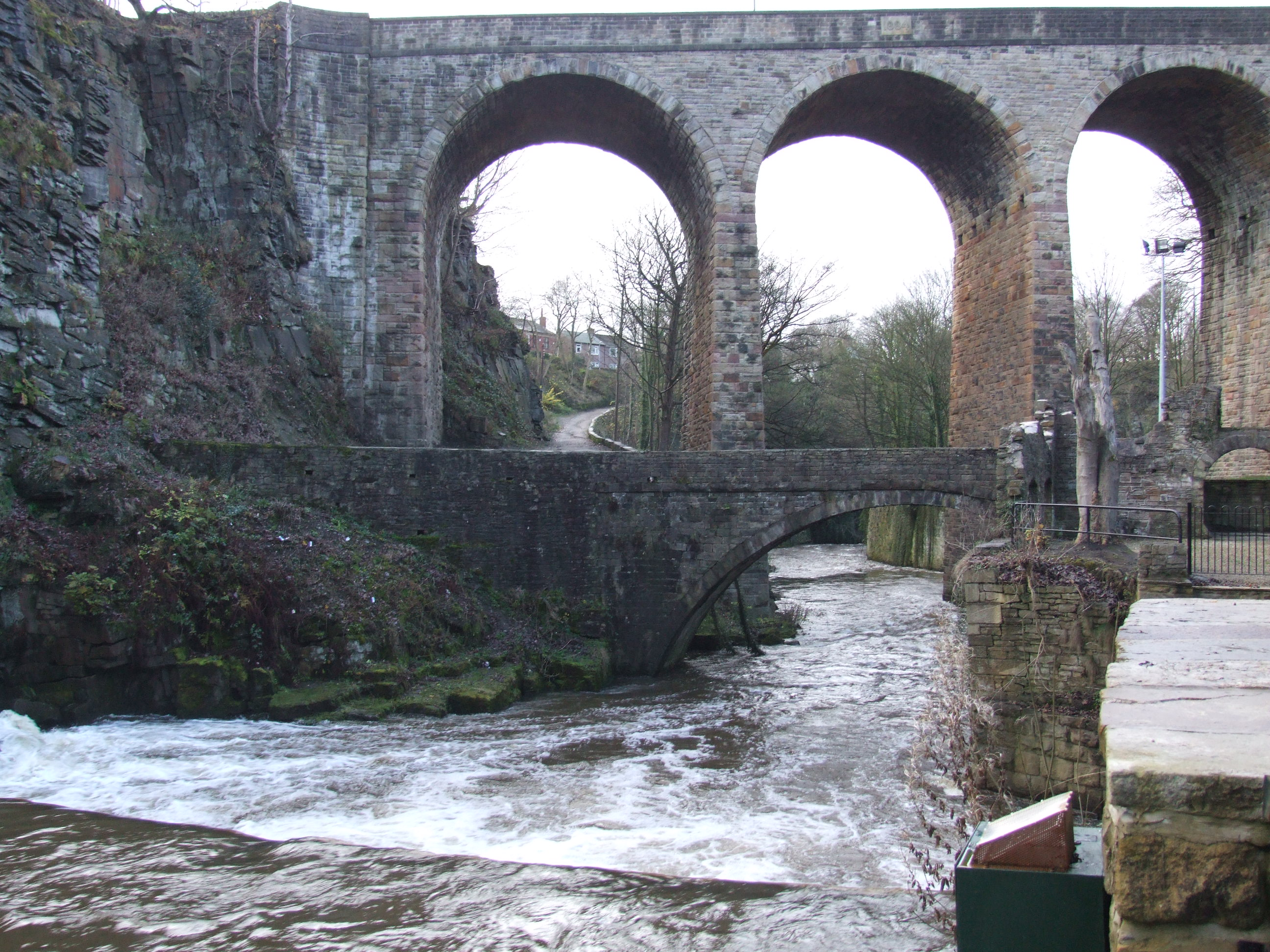 Torrs Hydro, New Mills is in New Mills, a village in the Peak District. It lies close to the confluence of the River Sett and the River Goyt. View of the Union Bridge